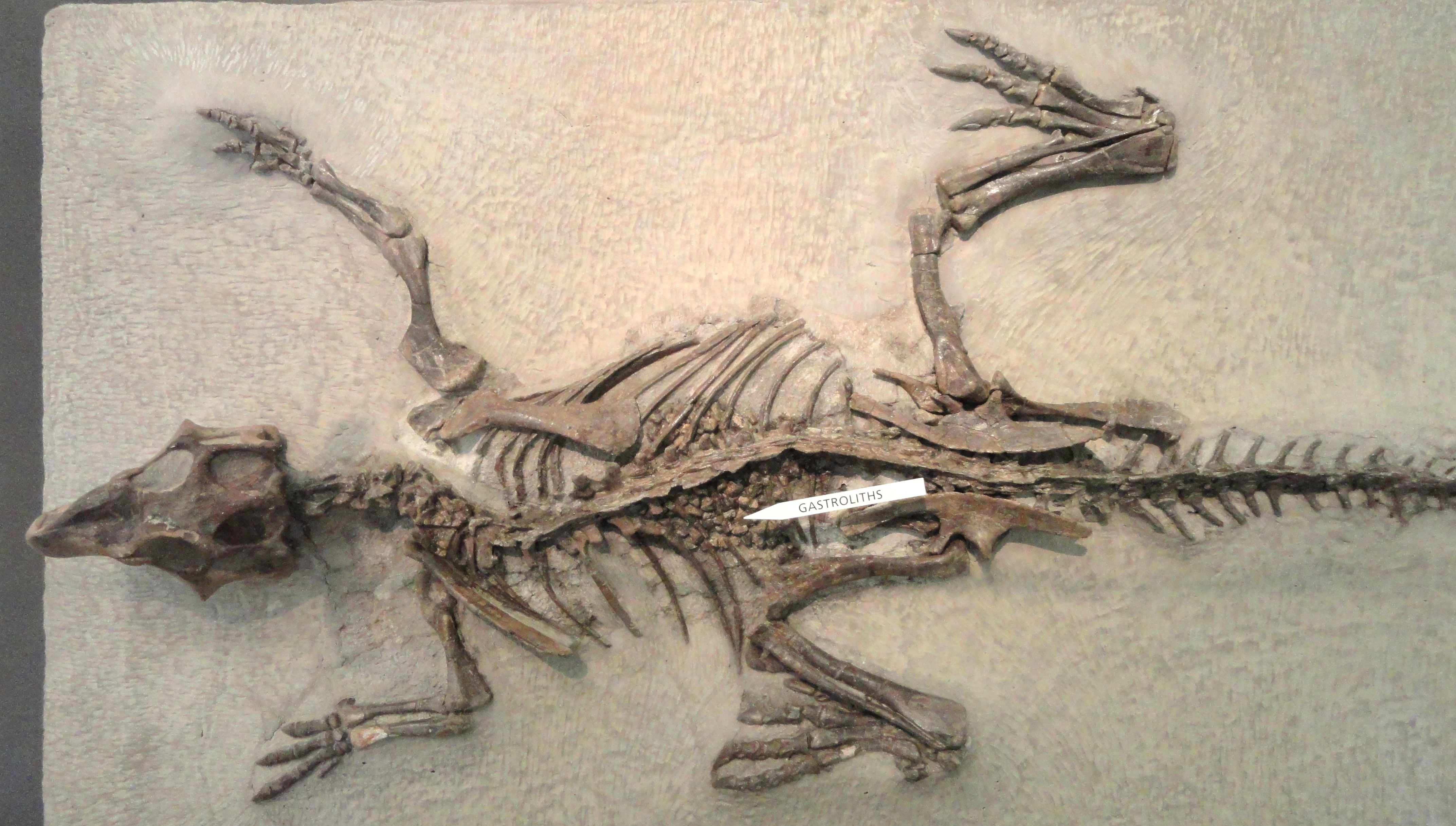 Exhibit in the fossil collection of the American Museum of Natural History, Manhattan, New York City, New York, USA.